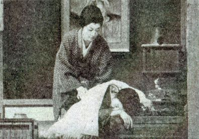 Mitsuko Mori (female lying face down) with a musical "A Wanderer's Notebook".